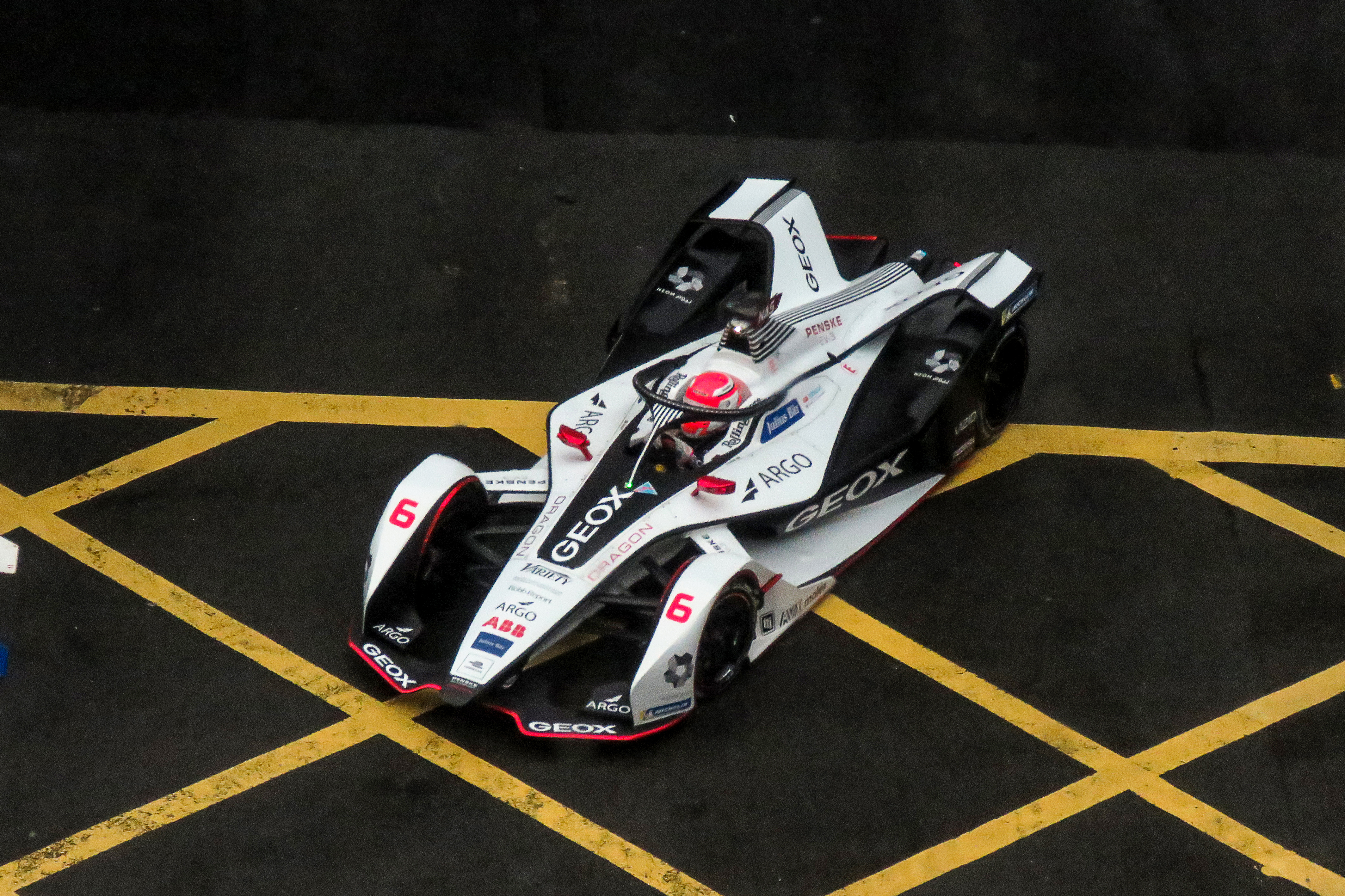 Test run, maybe.